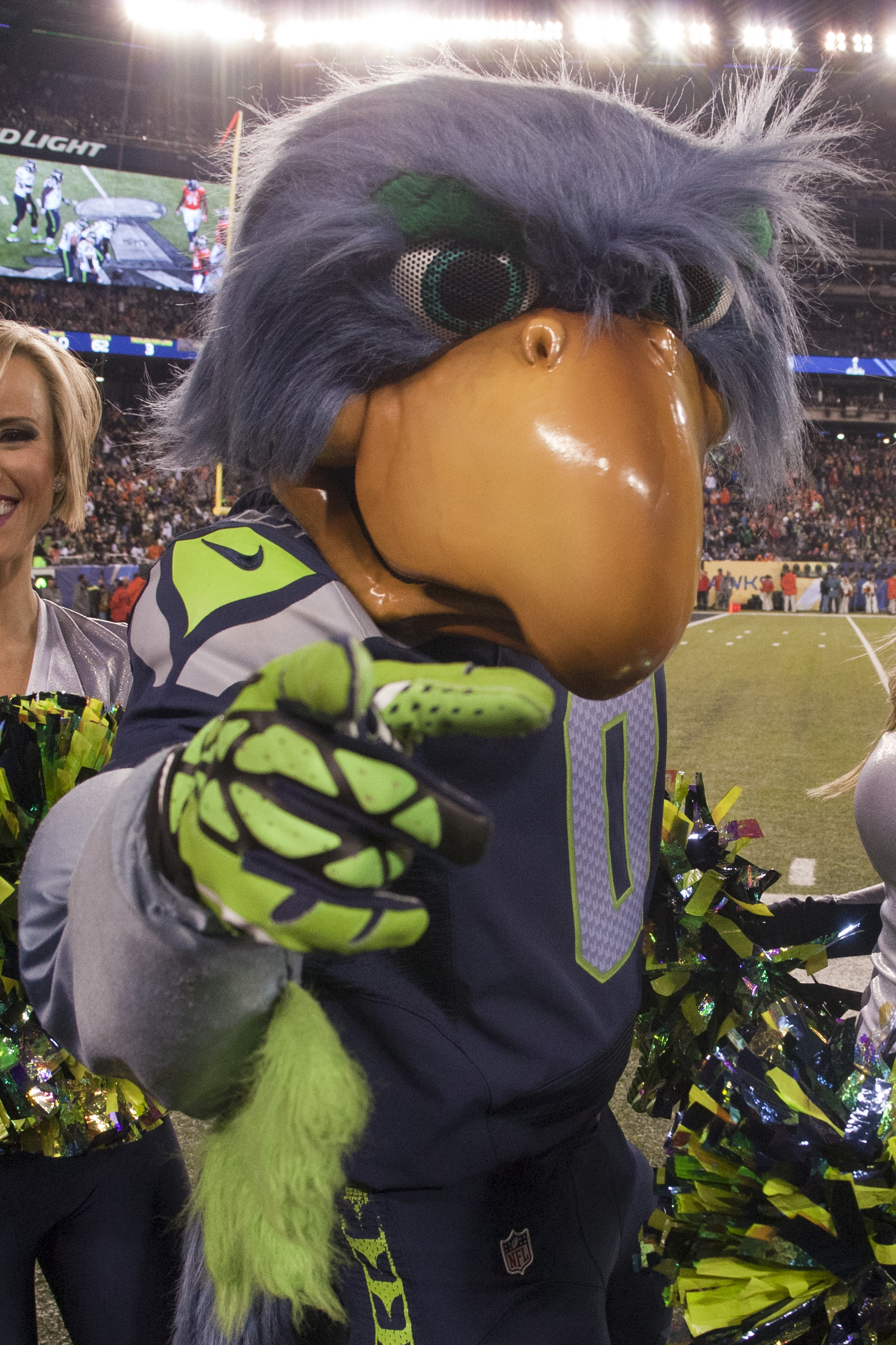 Seattle Seahawks mascot and cheerleaders at Super Bowl XLVIII.